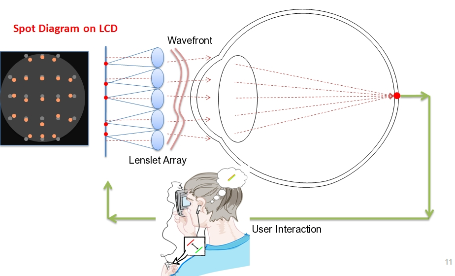 The inverse of the Shack-Hartmann Technique